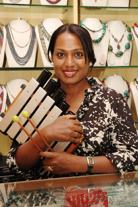 Kalki Subramaniam